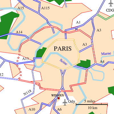 Situation of Wissous, south of Paris